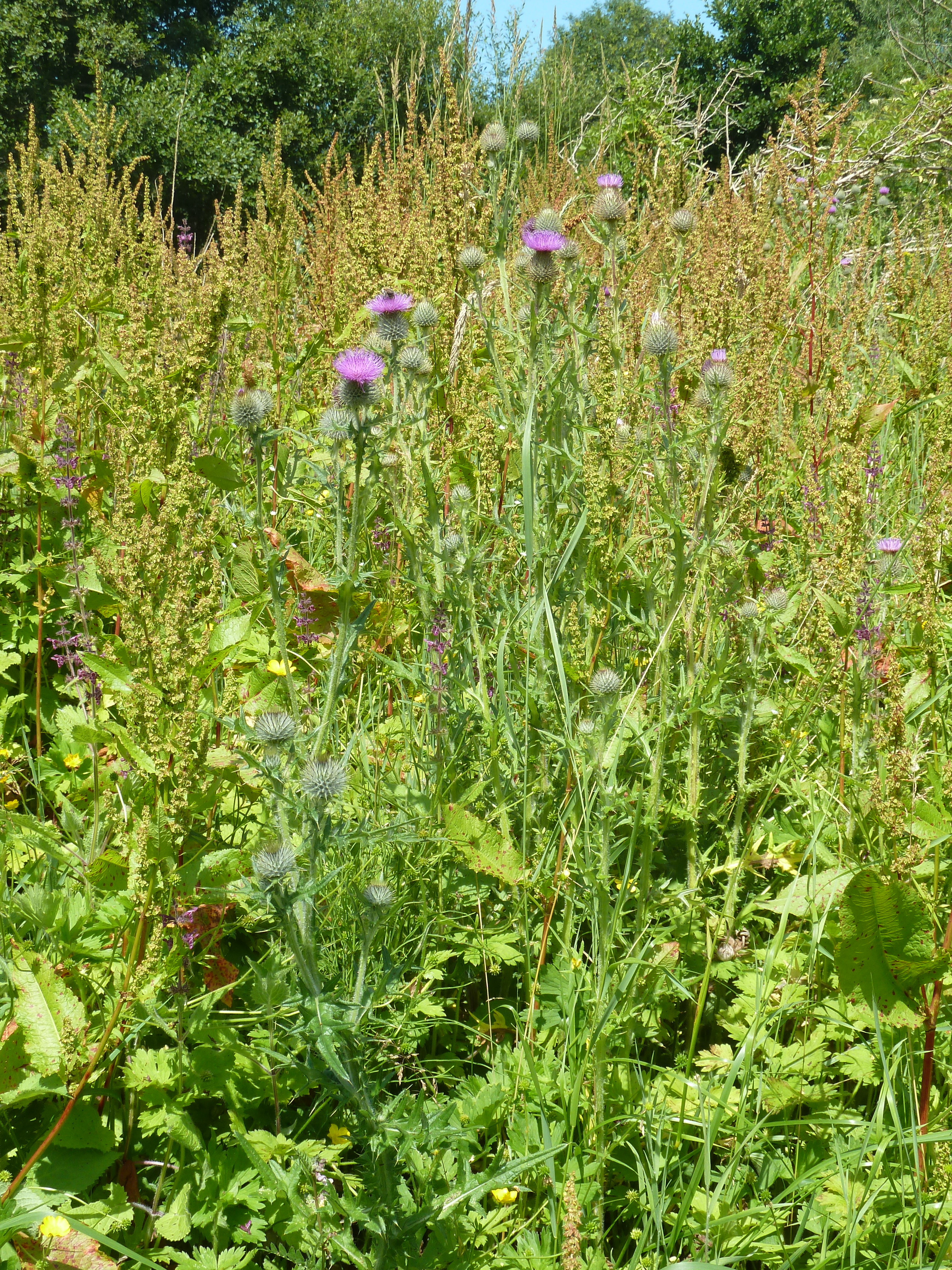 Hilden, Co. Antrim, Ireland. July Cirsium vulgare